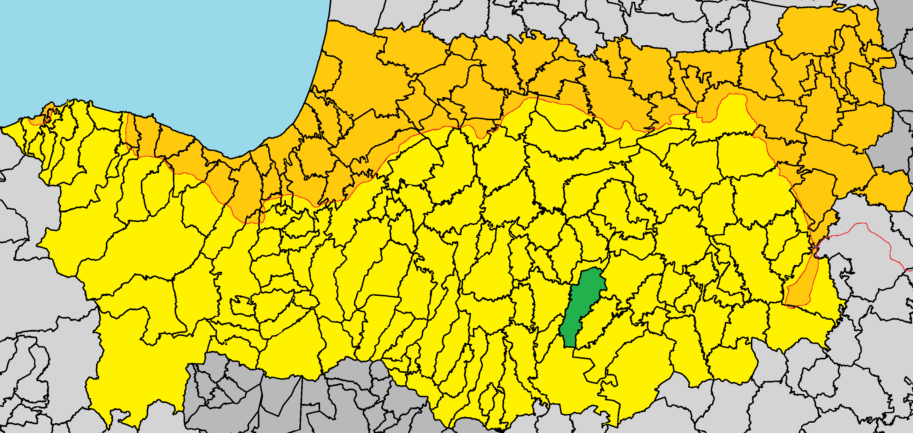 Politiko in Nicosia District.